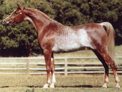 Horse is a chestnut with extensive Rabicano marking. It is a purebred Arabian. Rabicano is a roaning pattern that is not yet well understood genetically. However, it appears to not be the same as true roan. Also, do not confuse this horse's color with Appaloosa. Rabicano is not a leopard complex color. Purebred Arabians are never Appaloosa or leopard-spotted.